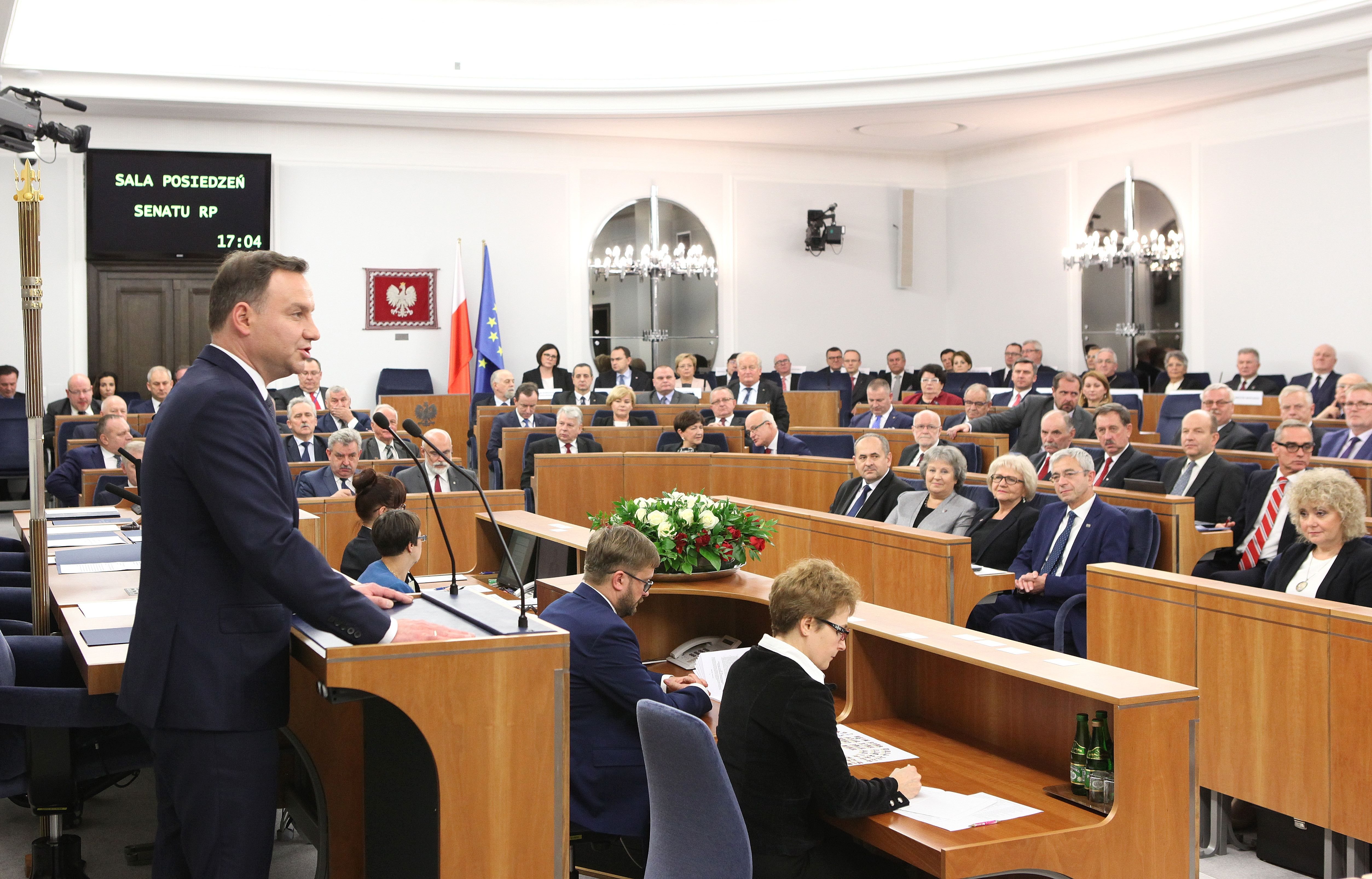 President Andrzej Duda during the 1st sitting of the 9th term Senate